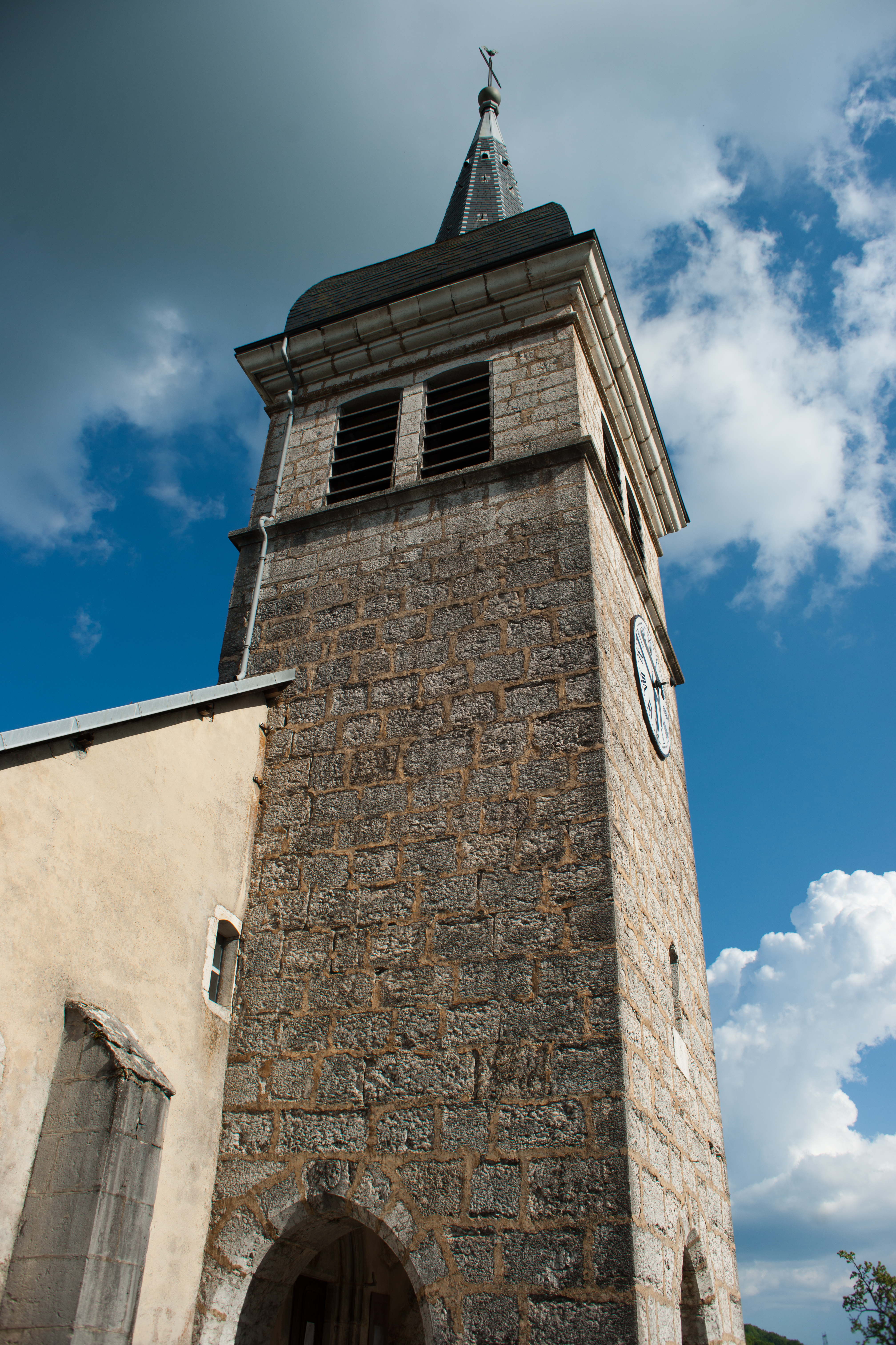 Church in Le Grand-Abergement, France.